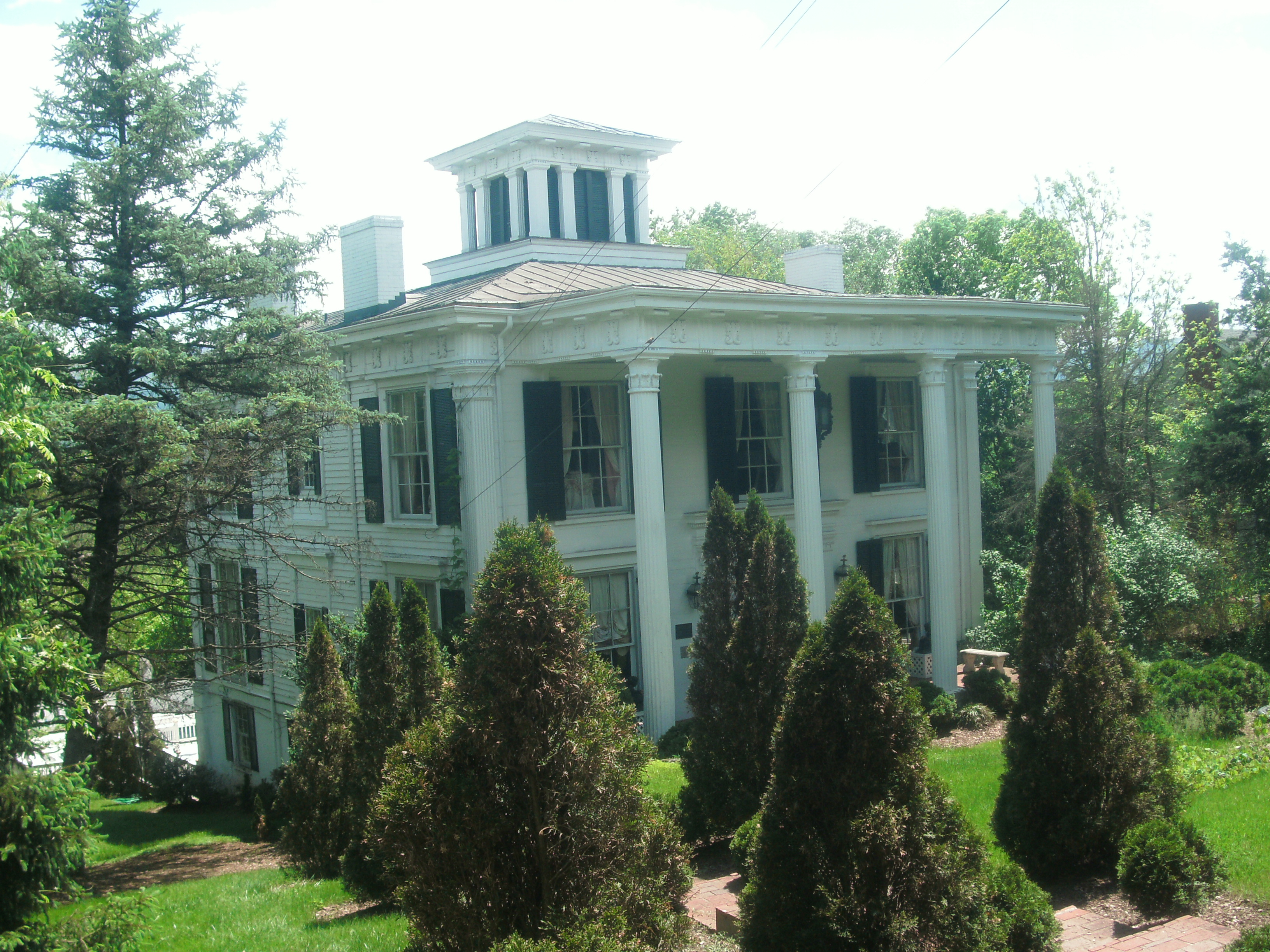 Aventine Hall, Luray, VA. Taken by me in May, 2016 GEDSC DIGITAL CAMERA